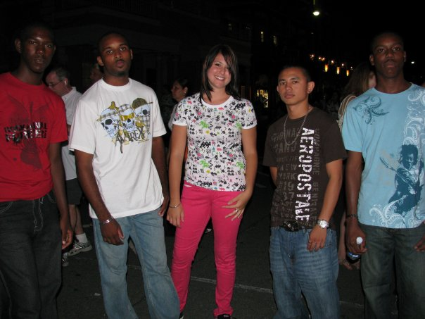 pic ogf my band from harbour nights